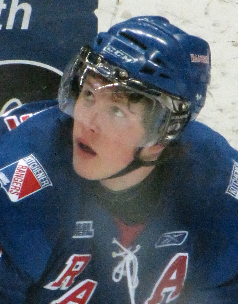 Jeff Skinner as a Kitchener Ranger